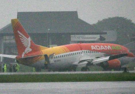 Adam Air Flight 172 breakup crash on landing.